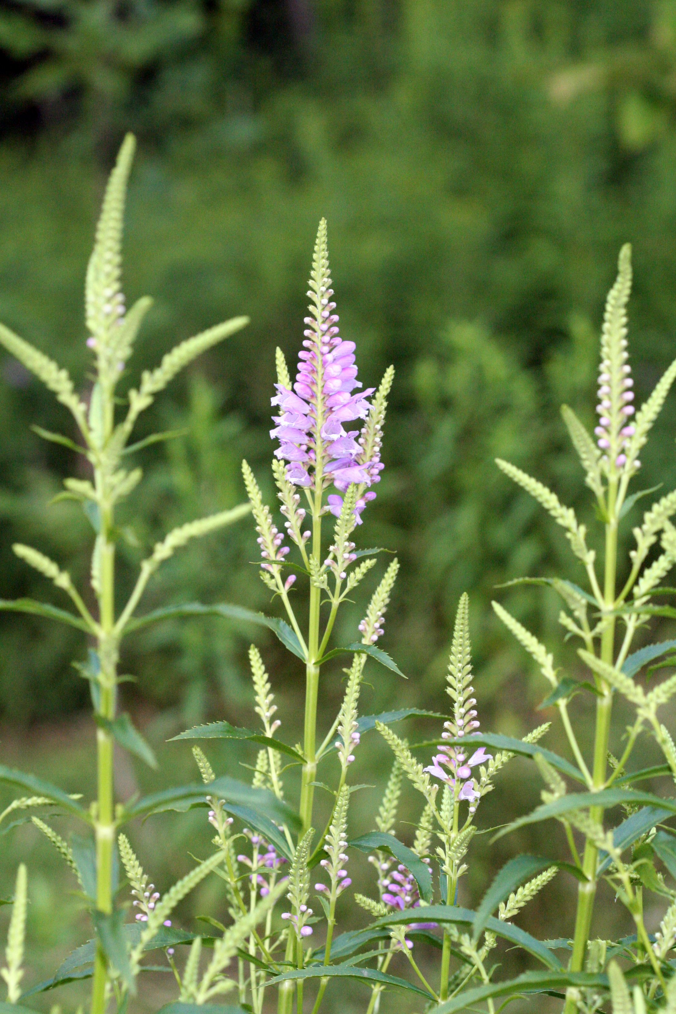 Physostegia virginiana (L.) Benth. - obedient plant - Town of Skaneateles, New York